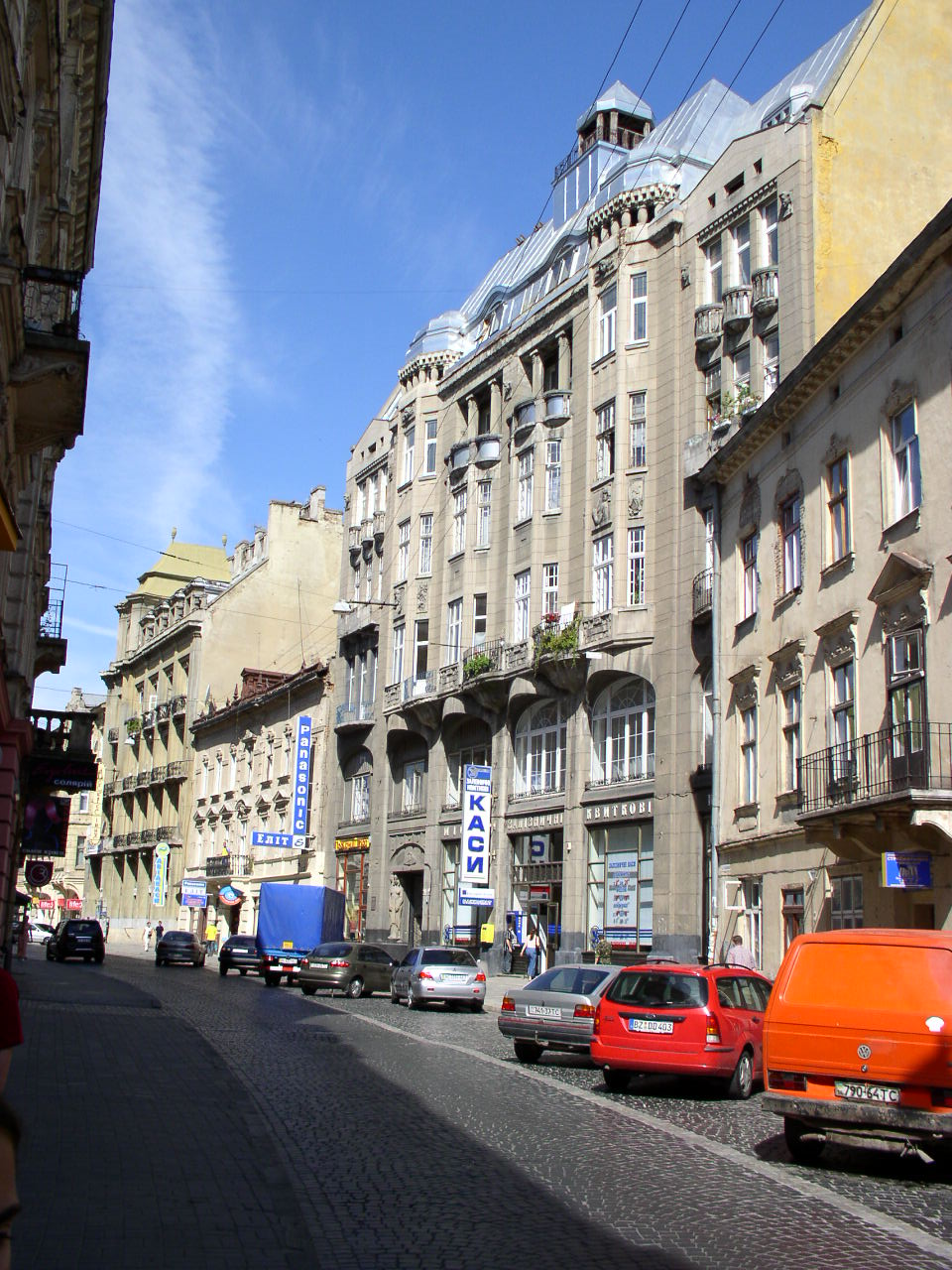 Streets of Lviv, Ukraine.